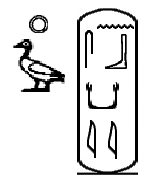 Cartouche of pharaoh Seneb Kay